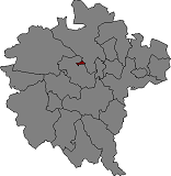 Location of Castellfollit de la Roca in Garrotxa